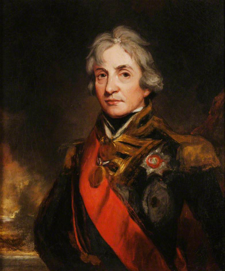 Admiral Horatio Nelson (1758-1805) Vice-Admiral of the English Fleet; British naval officer